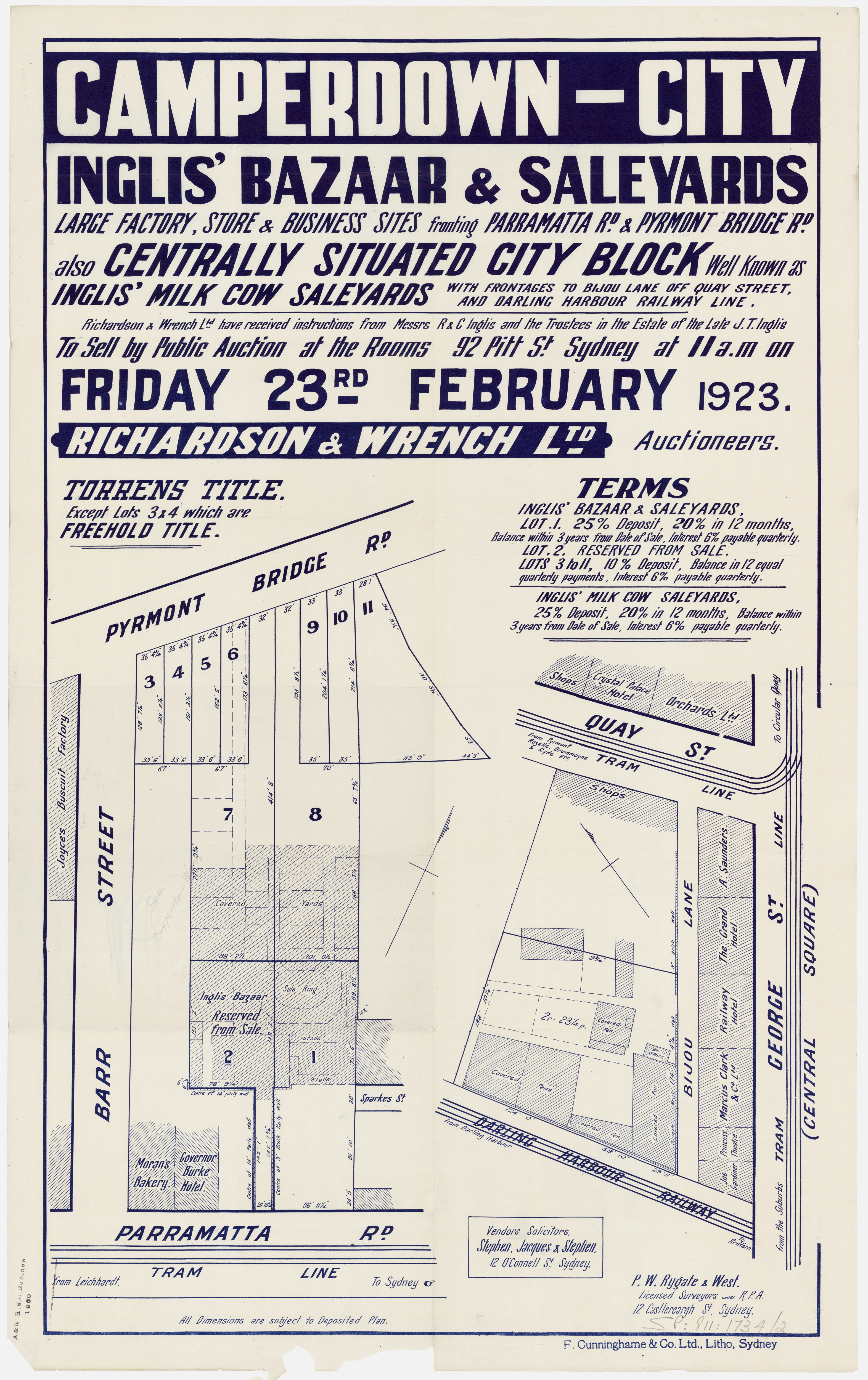 Inglis' Bazaar & Saleyards, Pyrmont Bridge Rd, Barr St, Parramatta St, George St, Quay St , 1923, F. Cunninghame & Co., State Library of New South Wales Z/SP/811.1734